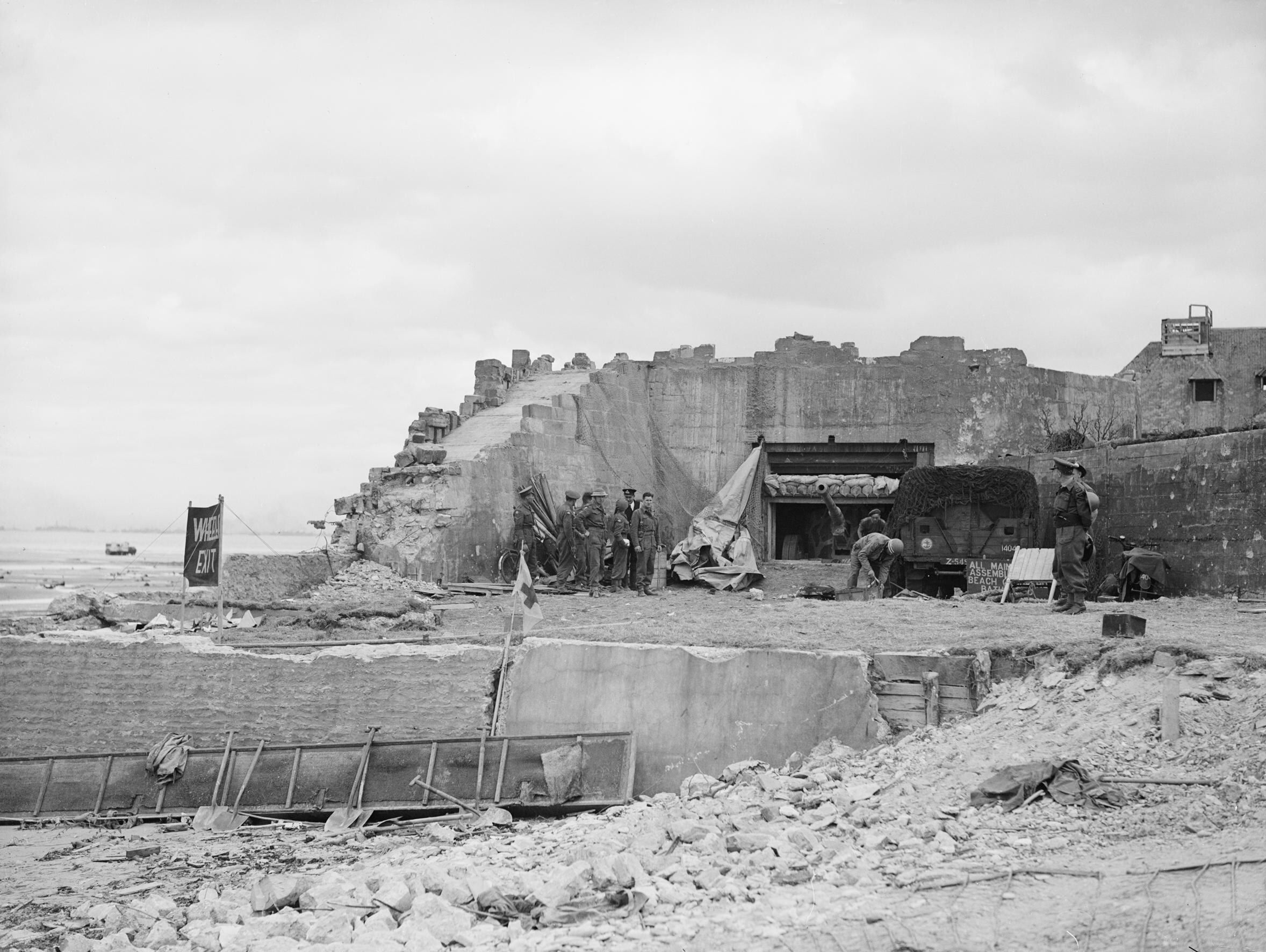 Operation Overlord (the Normandy Landings)- D-day 6 June 1944 The British 2nd Army: Royal Navy Commandos of LCOCU (Landing Craft Obstacle Clearing Unit) examine a large casemate and its 88mm gun which formed part of German strongpoint WN33 on the western edge of La Riviere, and which caused the forces landing on 'King' Beach, GOLD Area considerable trouble before it was silenced.